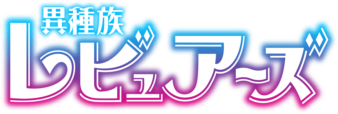 Logo of the anime Interspecies Reviewers.